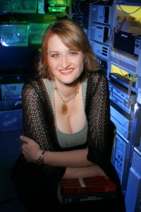 Elonka Dunin, photographed by Suzy Gorman at the United Forensics datacenter in St. Louis, MO. Owned by Elonka Dunin, and licensed under Creative Commons Attribution ShareAlike License v. 2.5